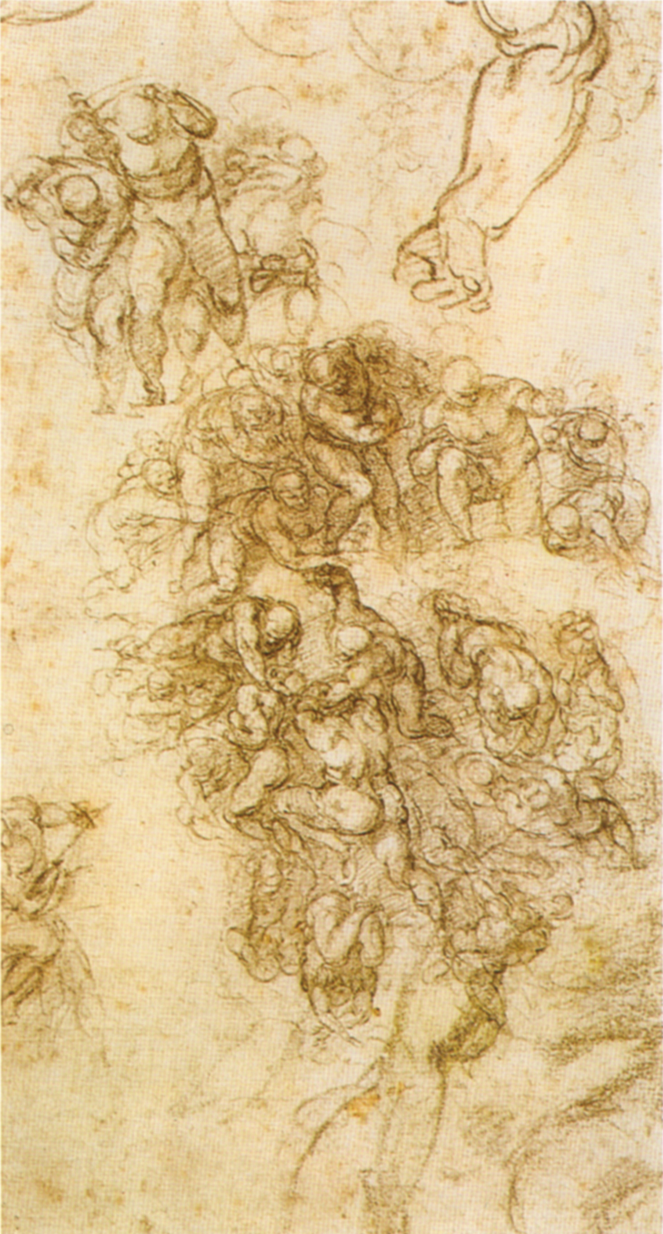 MICHELANGELO Buonarroti Last Judgment